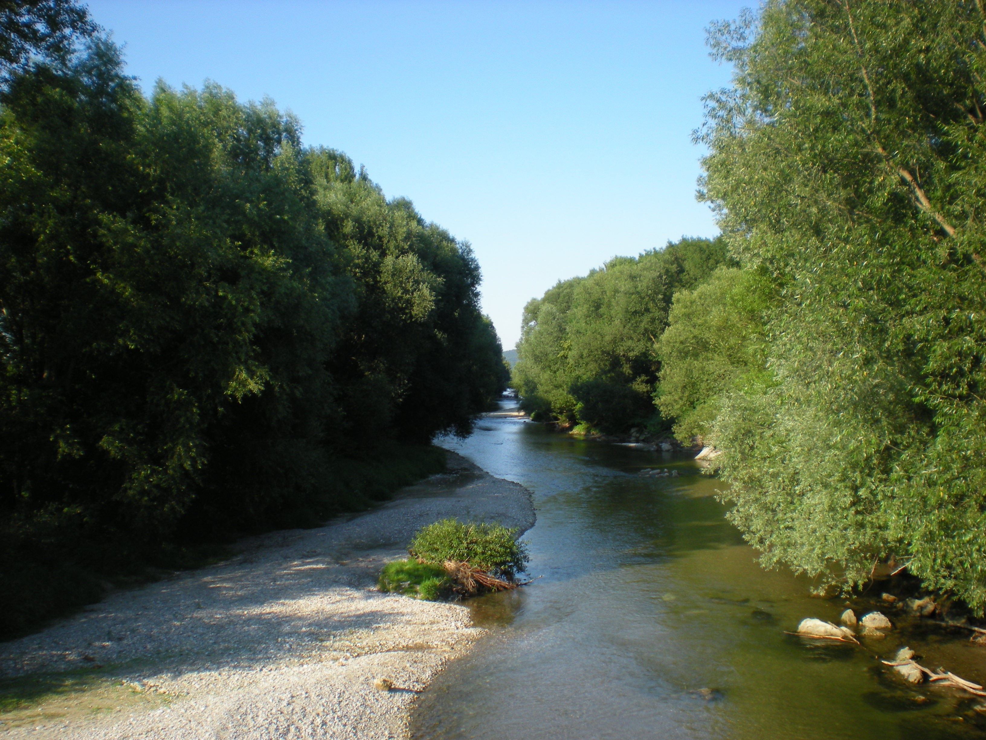 Leitha river near Kleinwolkersdorf, municipality Lanzenkirchen, Lower Austria